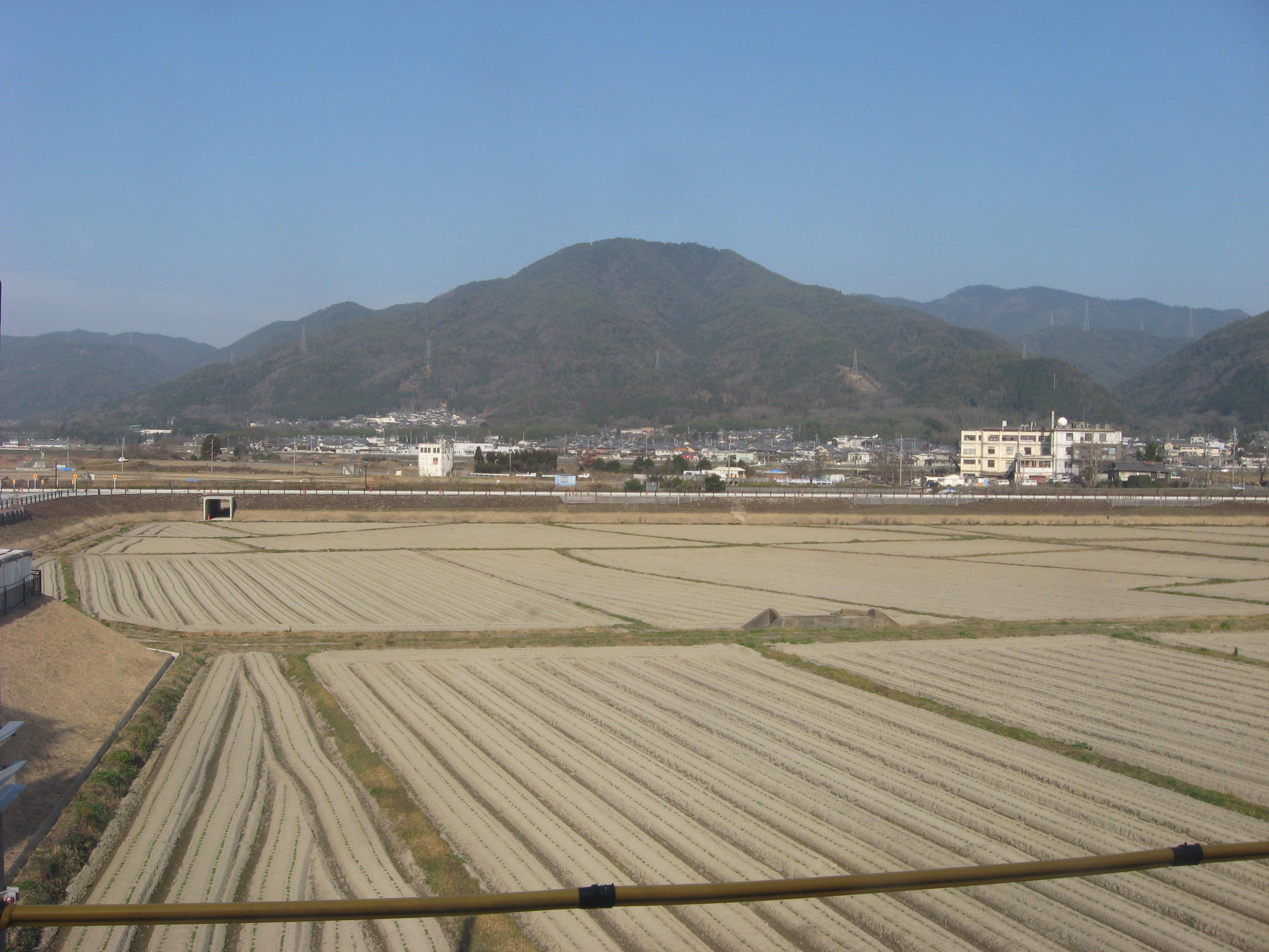 JR Kameoka Station North View